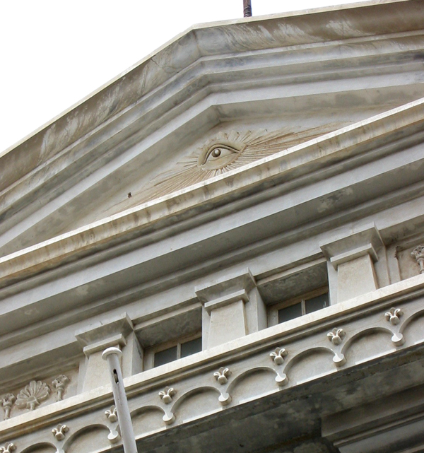 Mason temple in Santa Cruz, Tenerife. Unique in his kind in Spain, after the Civil War of 1937-39 was requisitioned by the Army, till late 90's. Now, back to the city counciol, is waiting for a restoration.